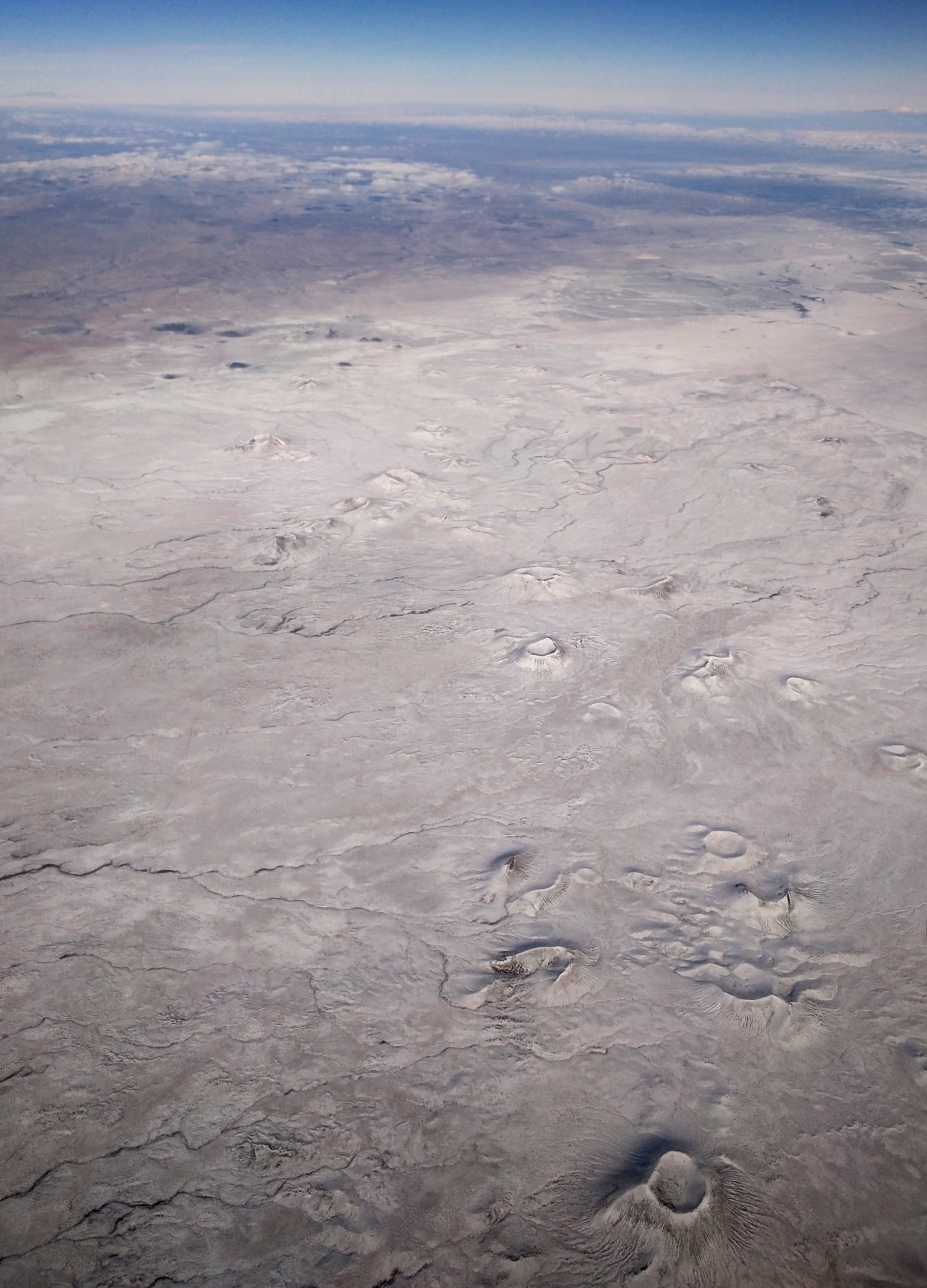 Potrillo volcanic field in New Mexico, viewed from the South, on Dec. 28 2015 with some snow from winter storm Goliath.